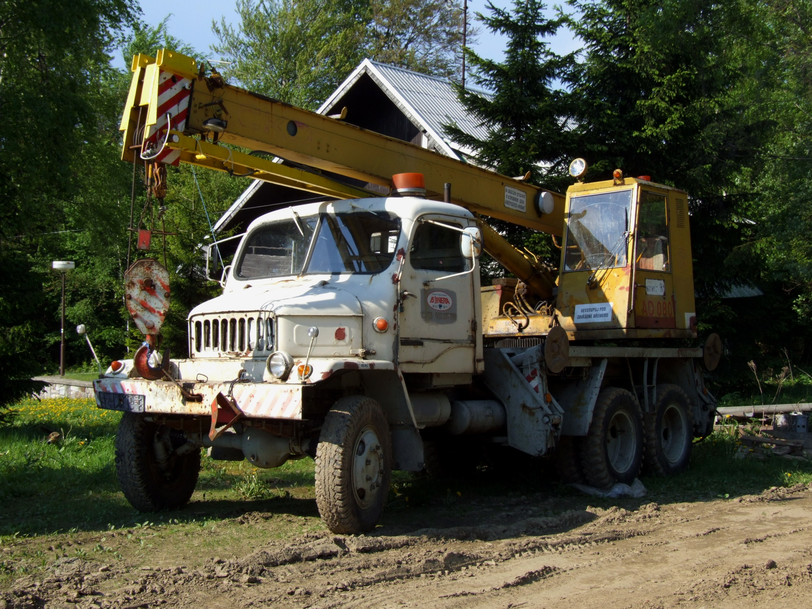 Czechoslovak truck Praga V3S in Ramzova, Czech Republic